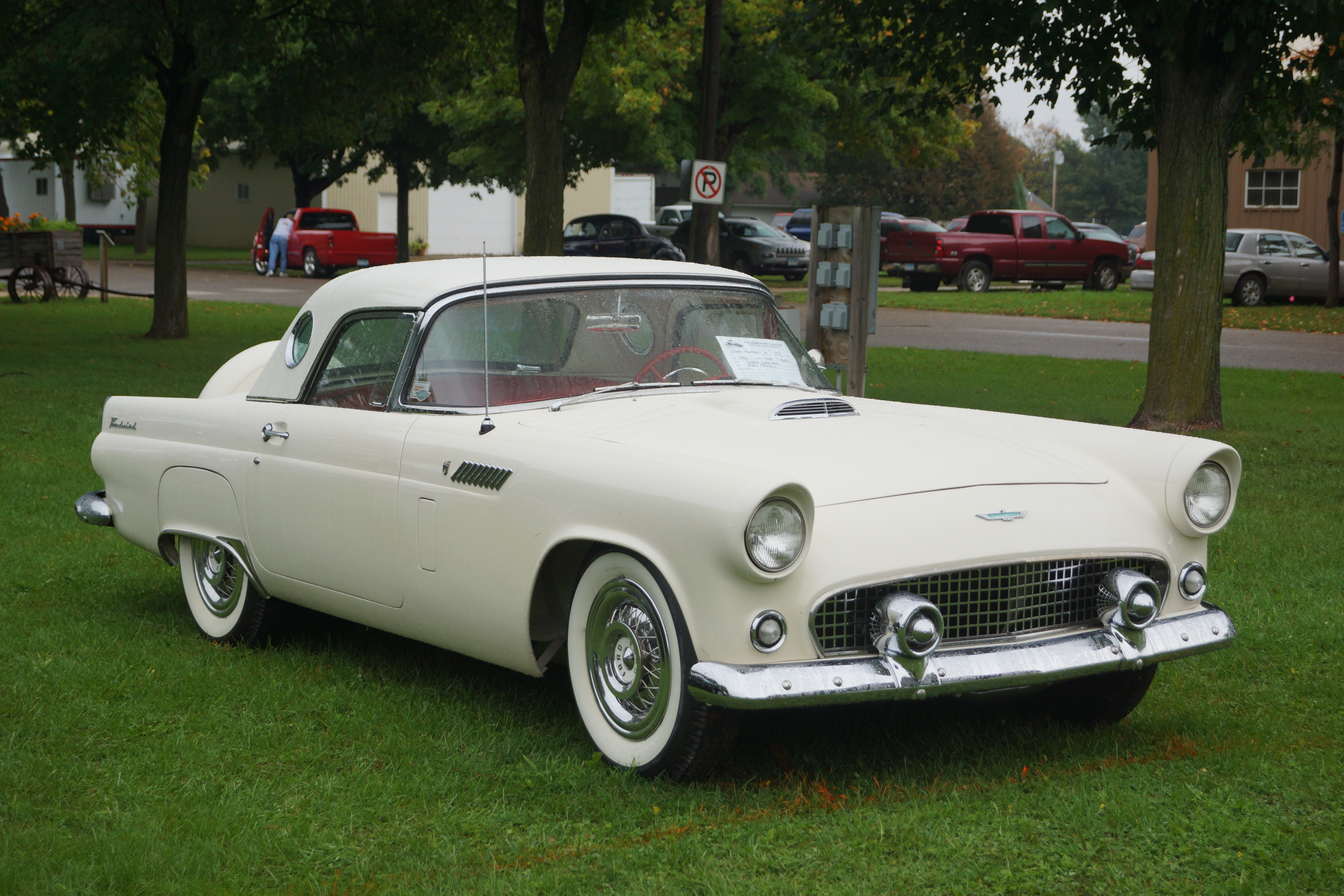 Southern Twin Cities Cruzers 29th Annual Summer Spectacular Car Show Dakota County Fairgrounds Farmington, Minnesota August 2017 ----- Click here for more car pictures at my Flickr site. Or here for my Car Crazy Tumblr site. Or on Twitter @DVS1mn.